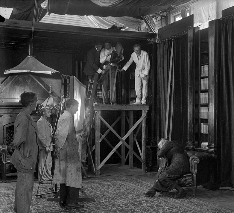 cinematographer Henrik Jaenzon (camera) & film director Victor Sjöström (in white), on the set of Hans nåds testamente - publicity still